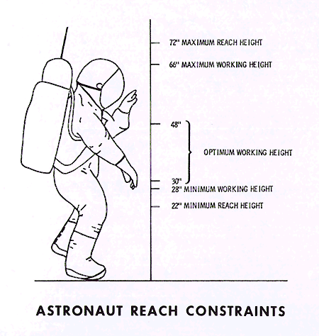 This diagram from NASA shows how high and how low an Apollo astronaut on the moon can reach.